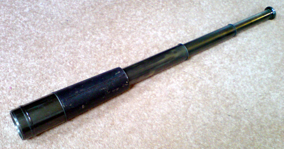 Photograph of Negretti Zambra telescope issued by British military.